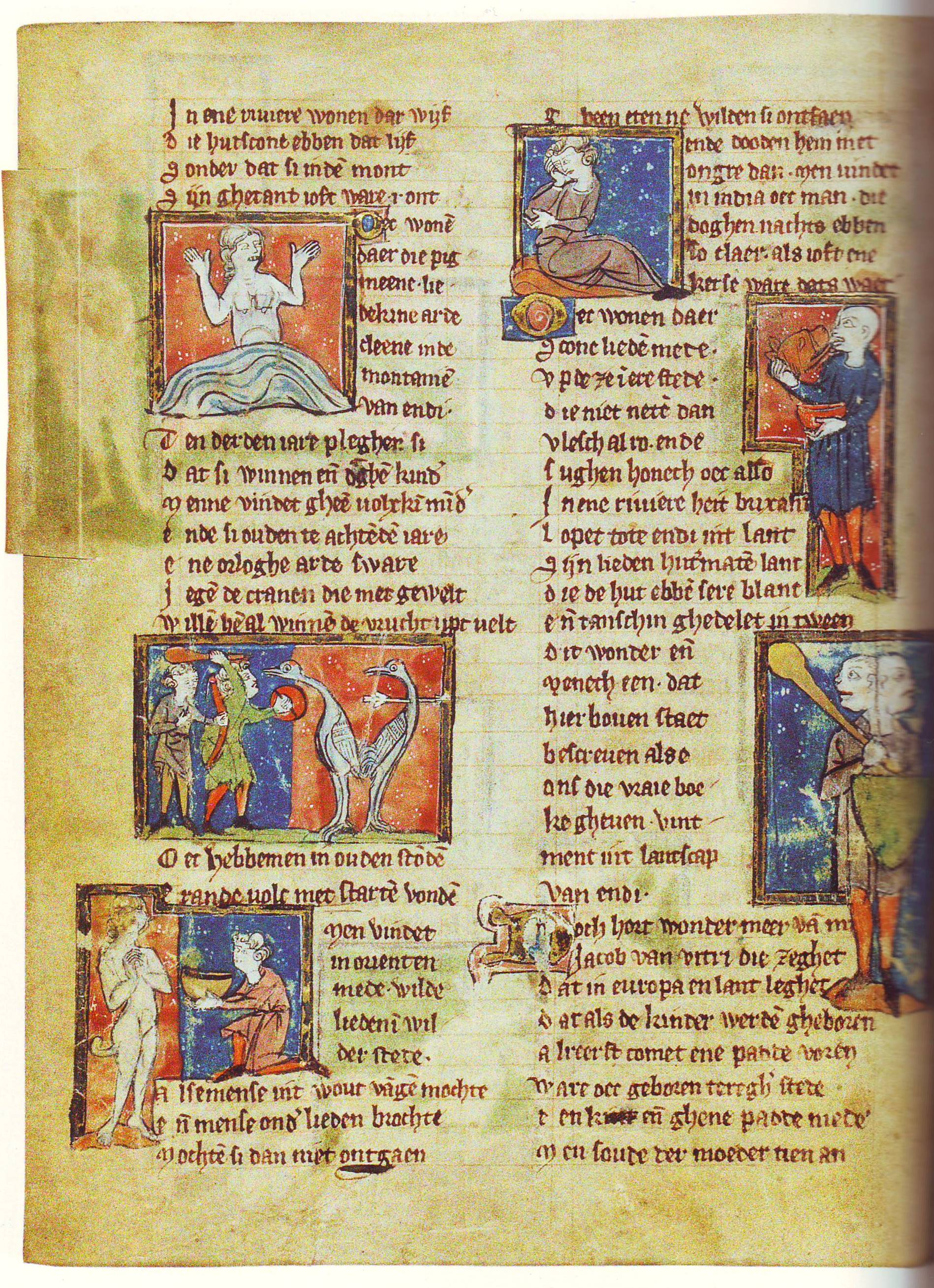 Der naturen bloeme. Foreign nations. From: Frits van Oostrom: Stemmen op schrift